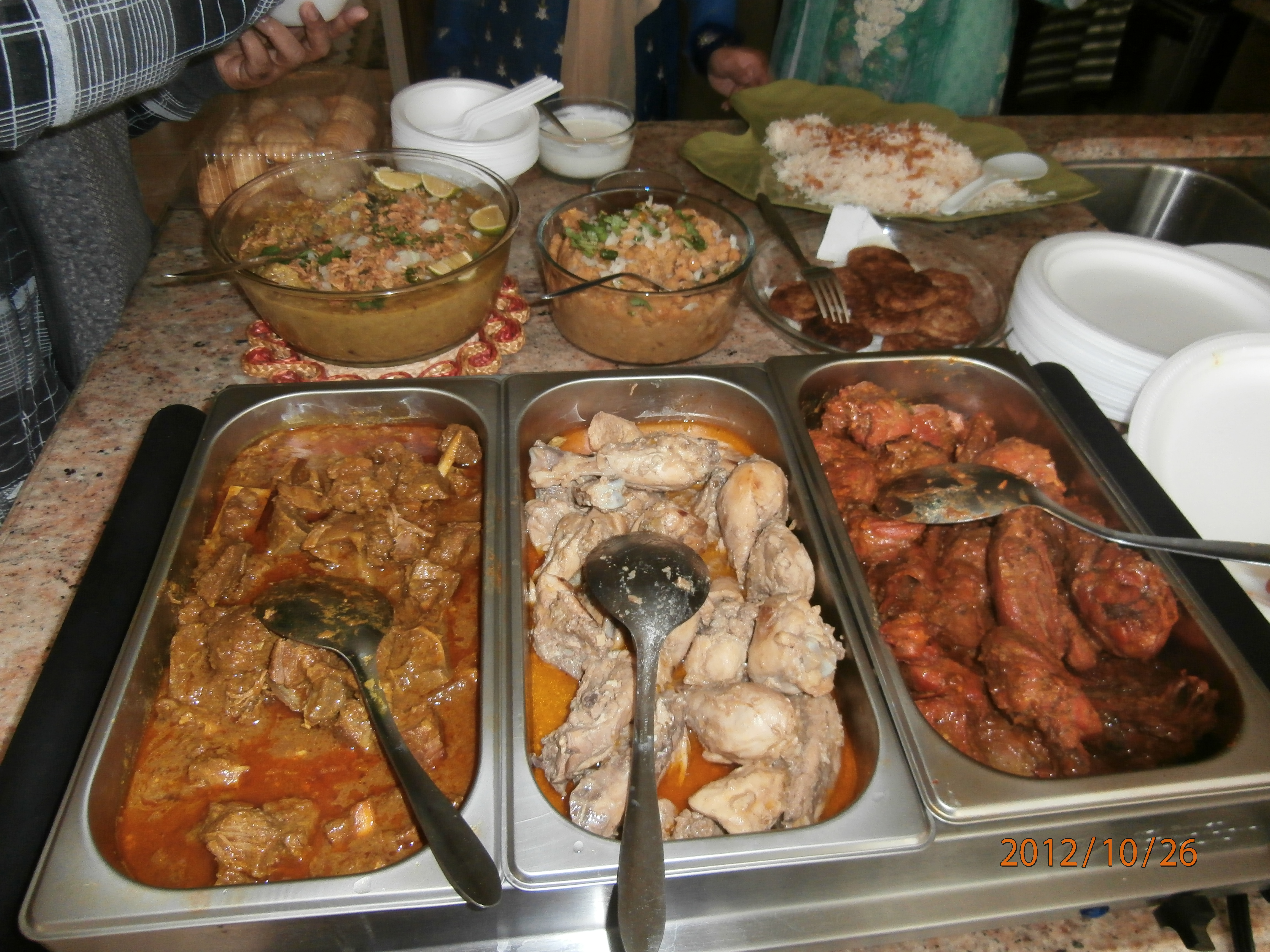 বাংলাদেশি খাবার